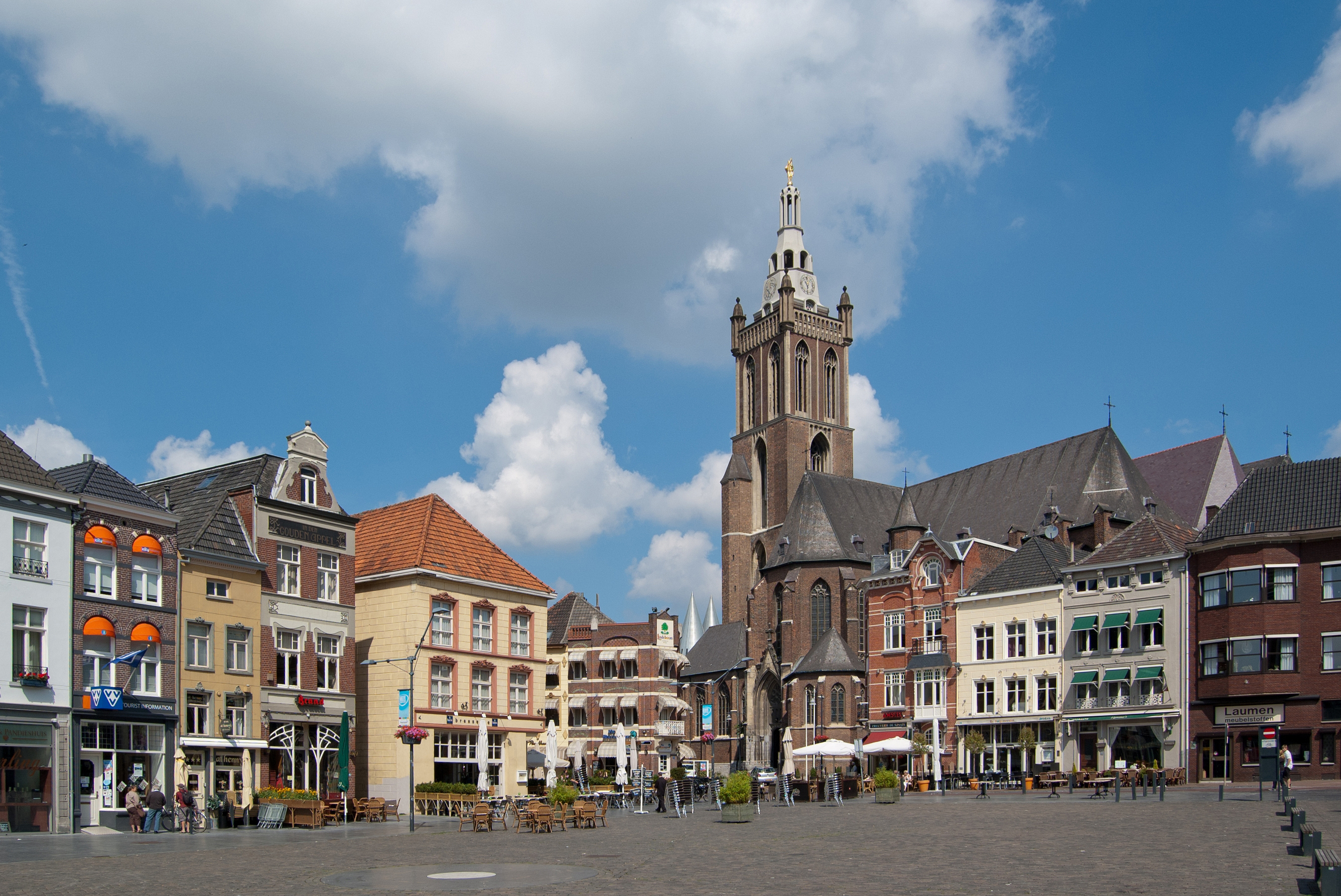 St. Christophorus Cathedral, Roermond, Netherlands